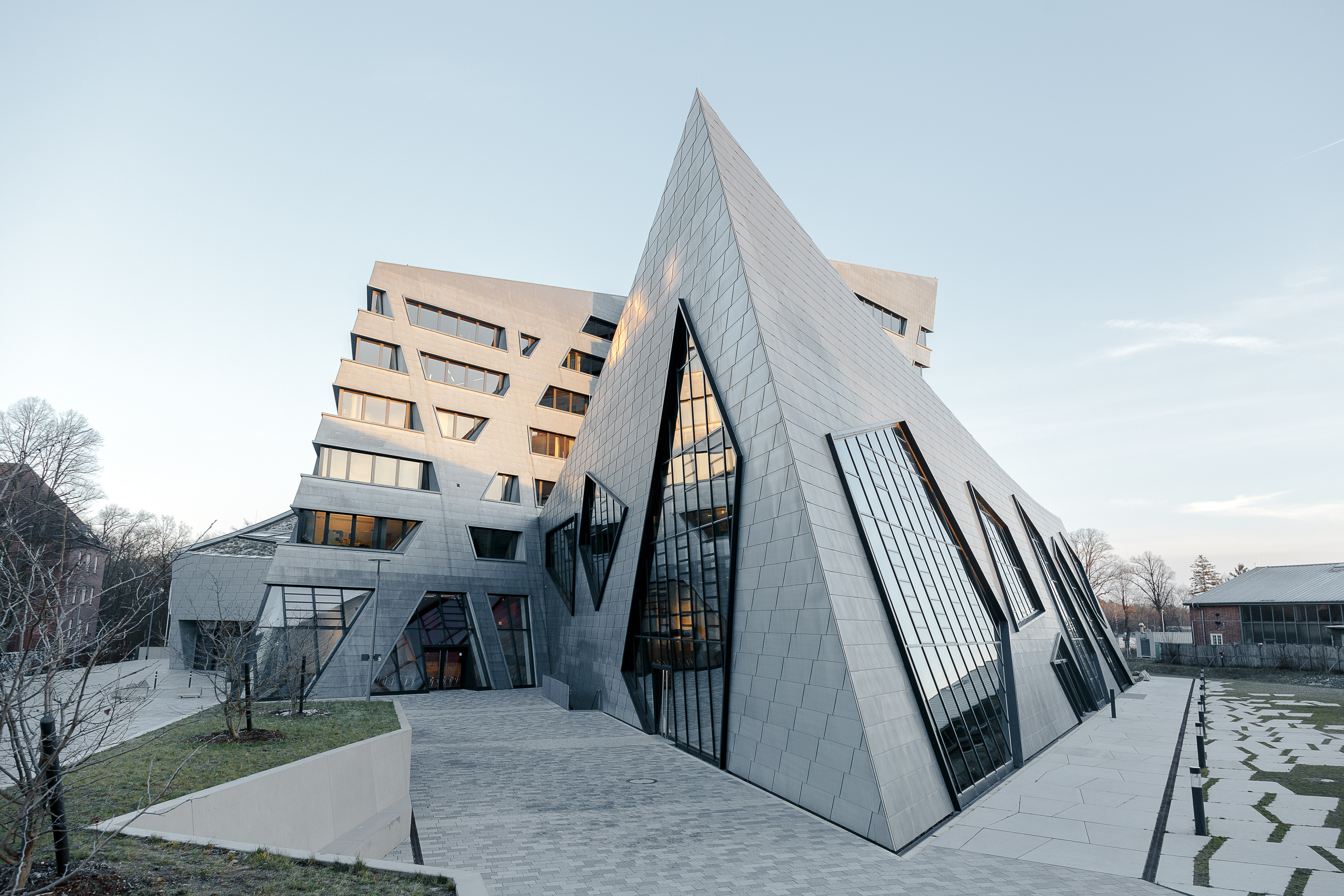 Back view of the Central building of the Leuphana University Lüneburg